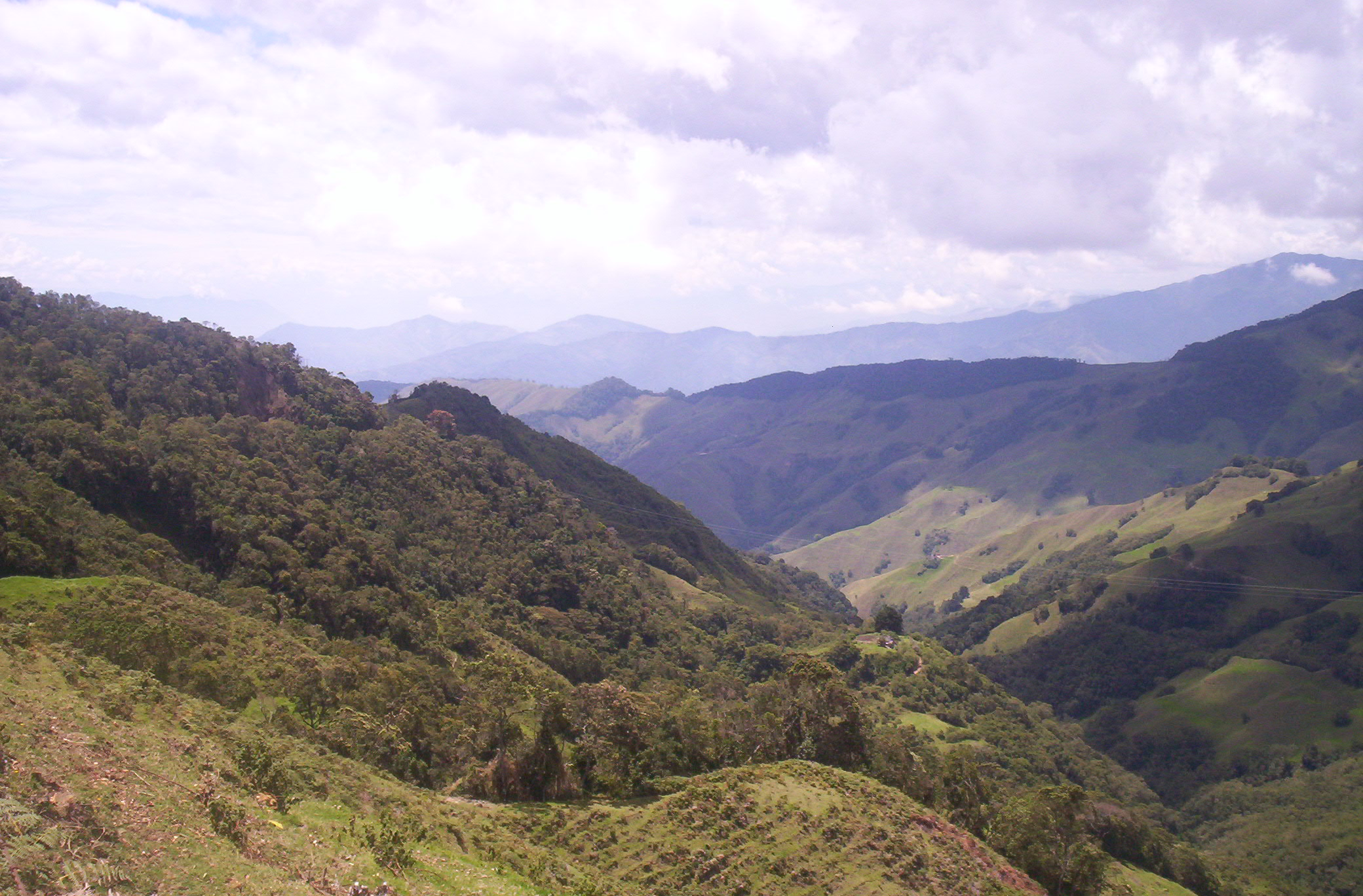 San Felix village in Salamina. Mountains, Caldas, Columbia.